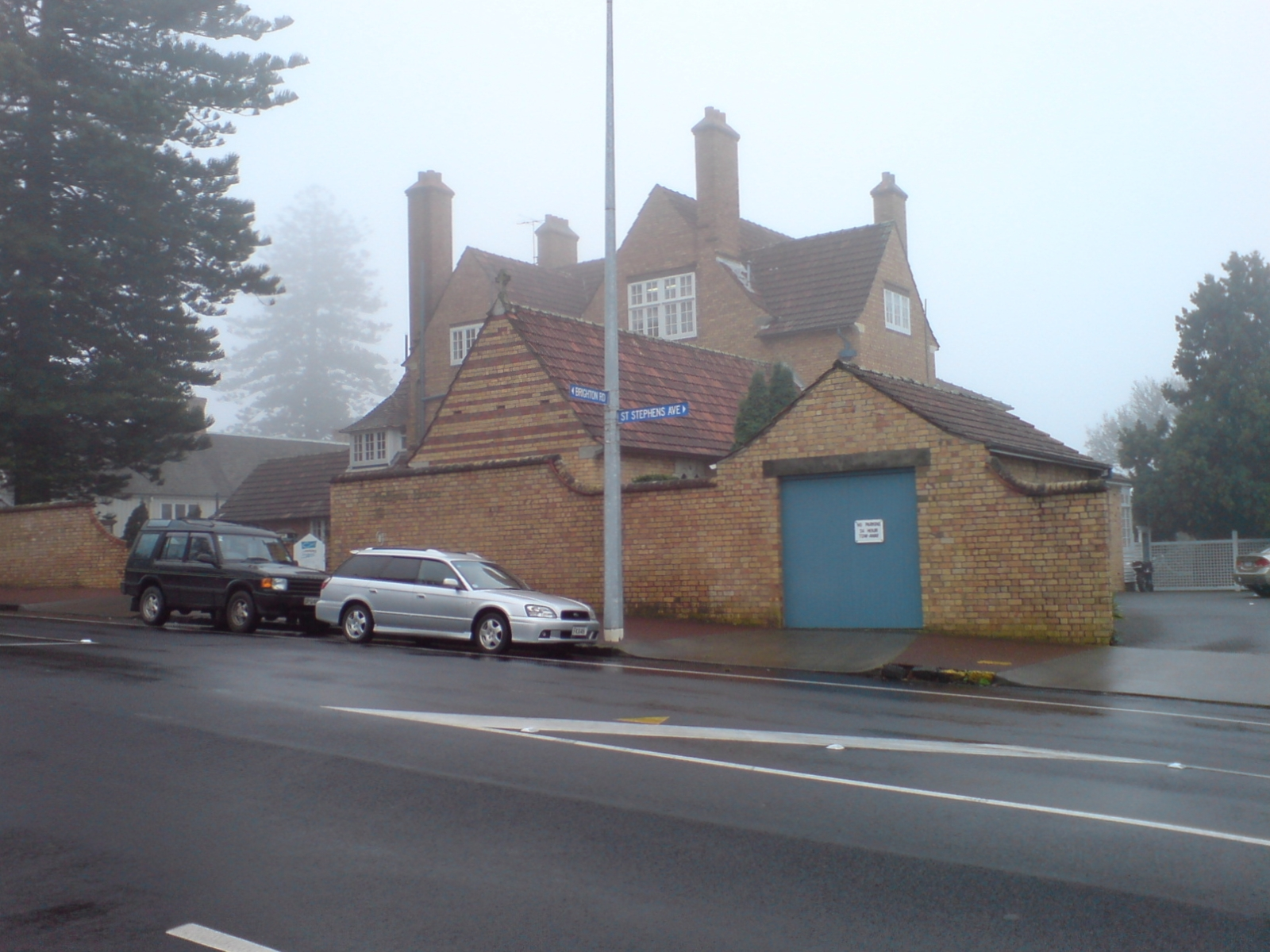 Neligan House, several Anglican Bishops of Auckland lived here, in Saint Stephens Avenue, Parnell, Auckland, New Zealand.